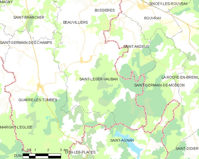 Map of French municipality Saint-Léger-Vauban